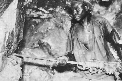 Katanga mine worker